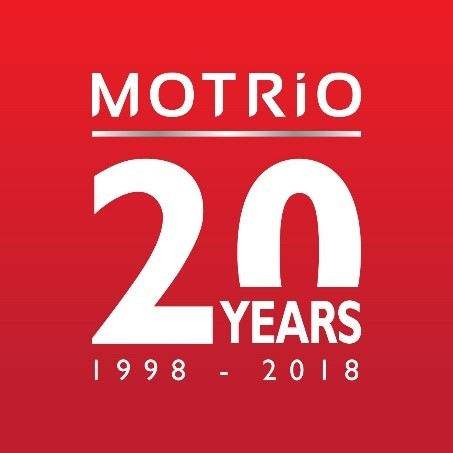 Motrio 20th anniversary logo